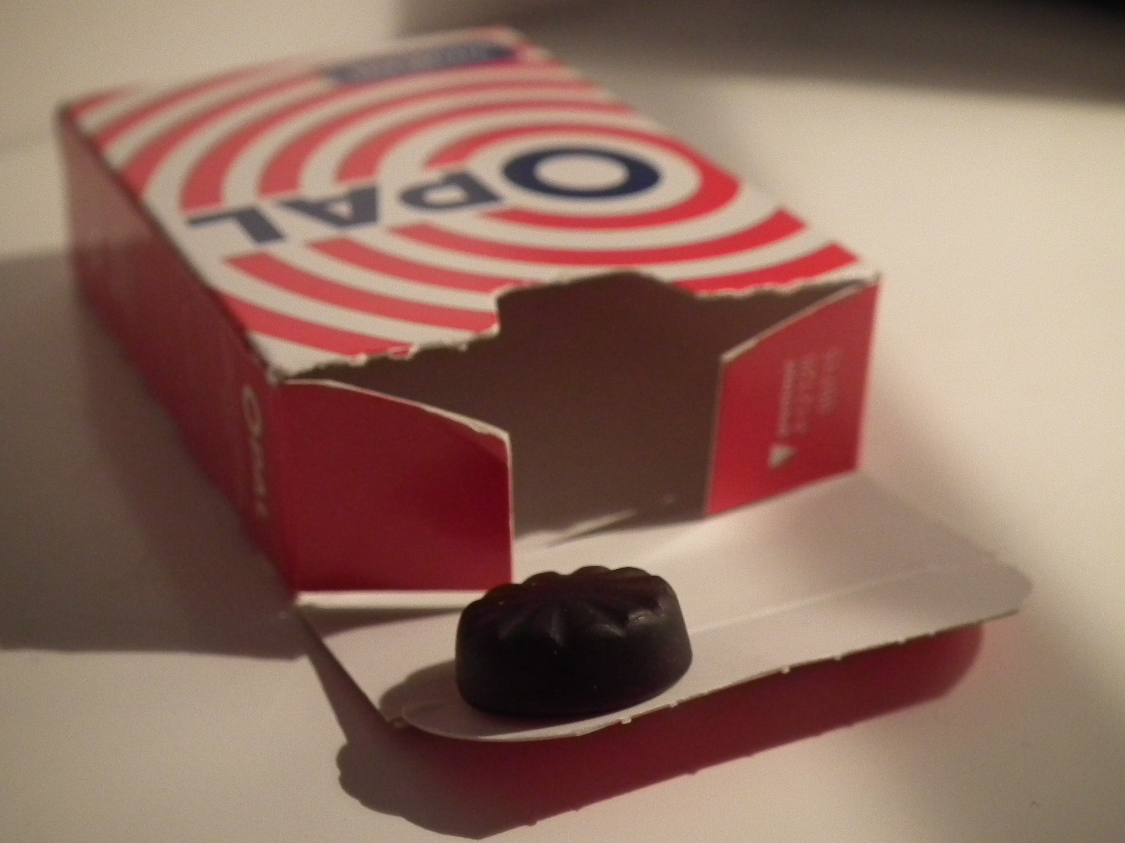 An Ópal pastille from the Icelandic company Nói Síríus.